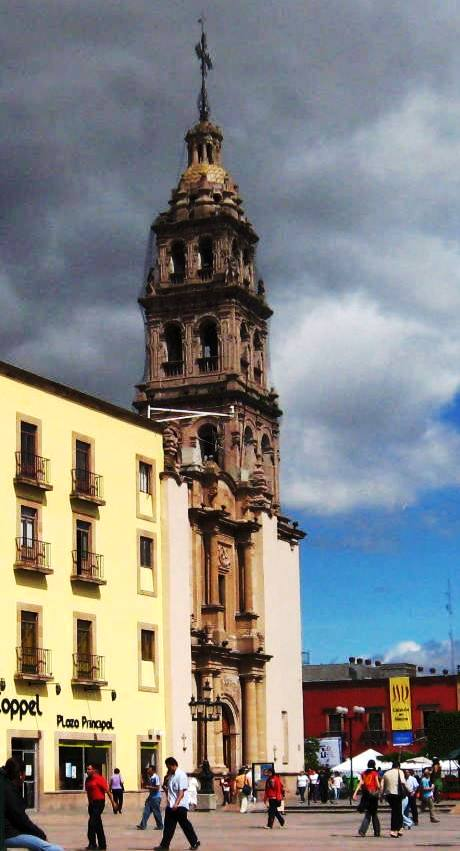 Orginal church of Leon Guanajuato state in Mexico on the main plaza